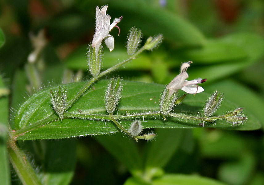 Andrographis echioides (Synonyms: Justicia echioides, Indoneesiella echioides)- False Waterwillow • Gujarati: Kalukariyatun • Malayalam: Pitumba • Marathi: Ranchimani • Oriya: lavalata • Tamil: Gopuram tangi- in Hyderabad, India.